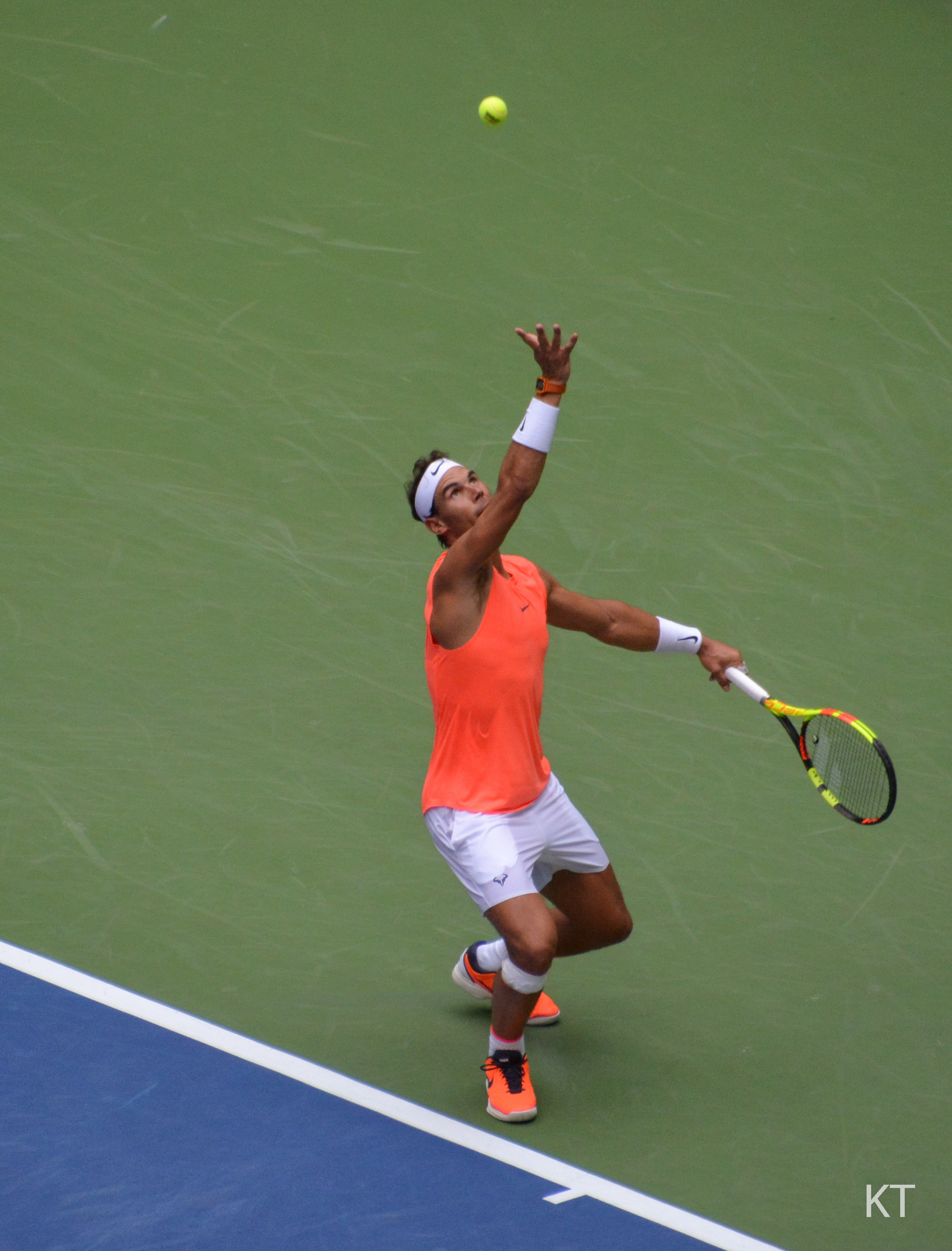 Rafael Nadal v Karen Khachanov on Arthur Ashe stadium. Day 5 of US Open 2018.